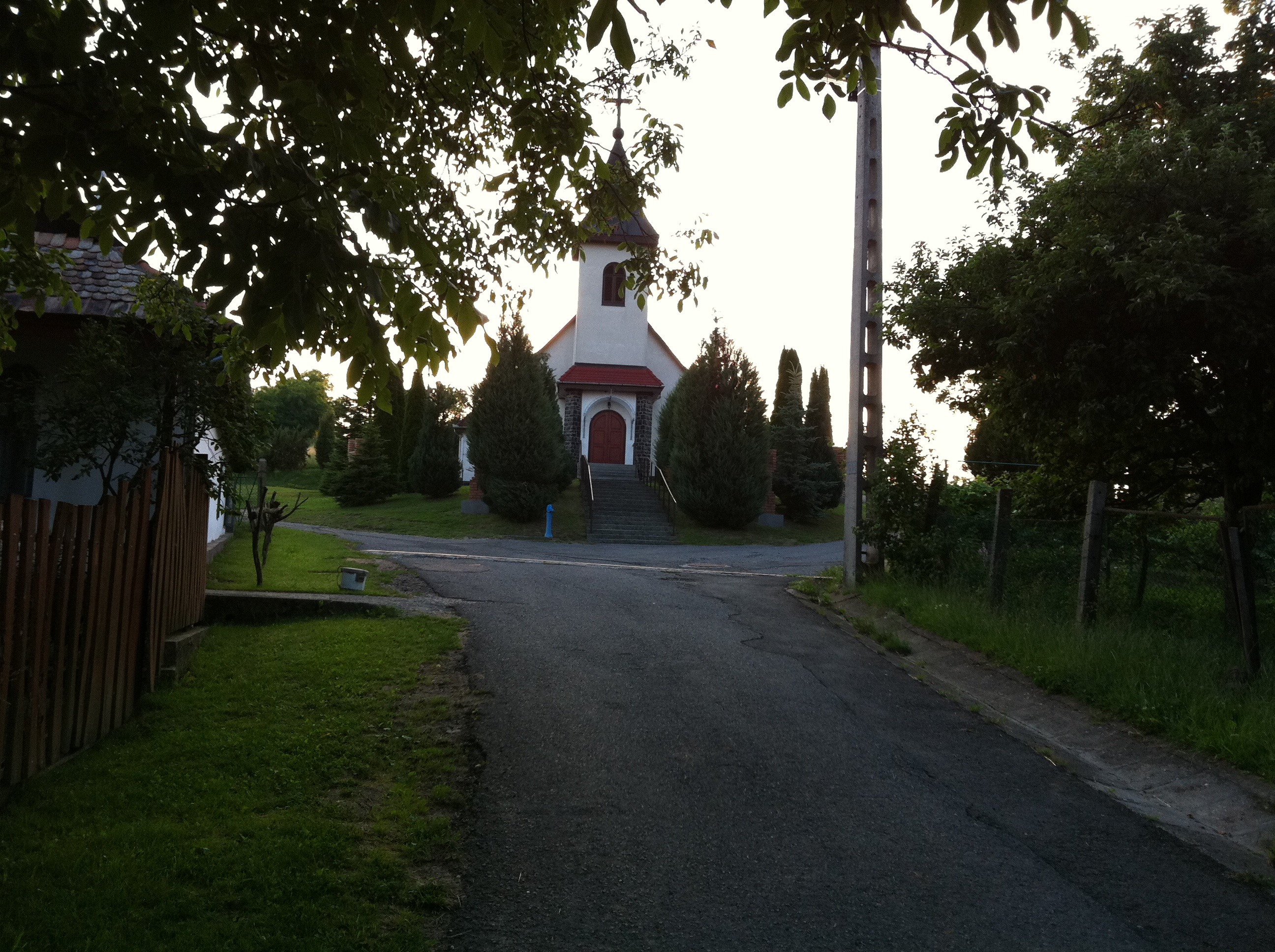 Kisbárkány, Hungary. Our Lady of the Snow Roman Catholic church. Built between 1992-1994.